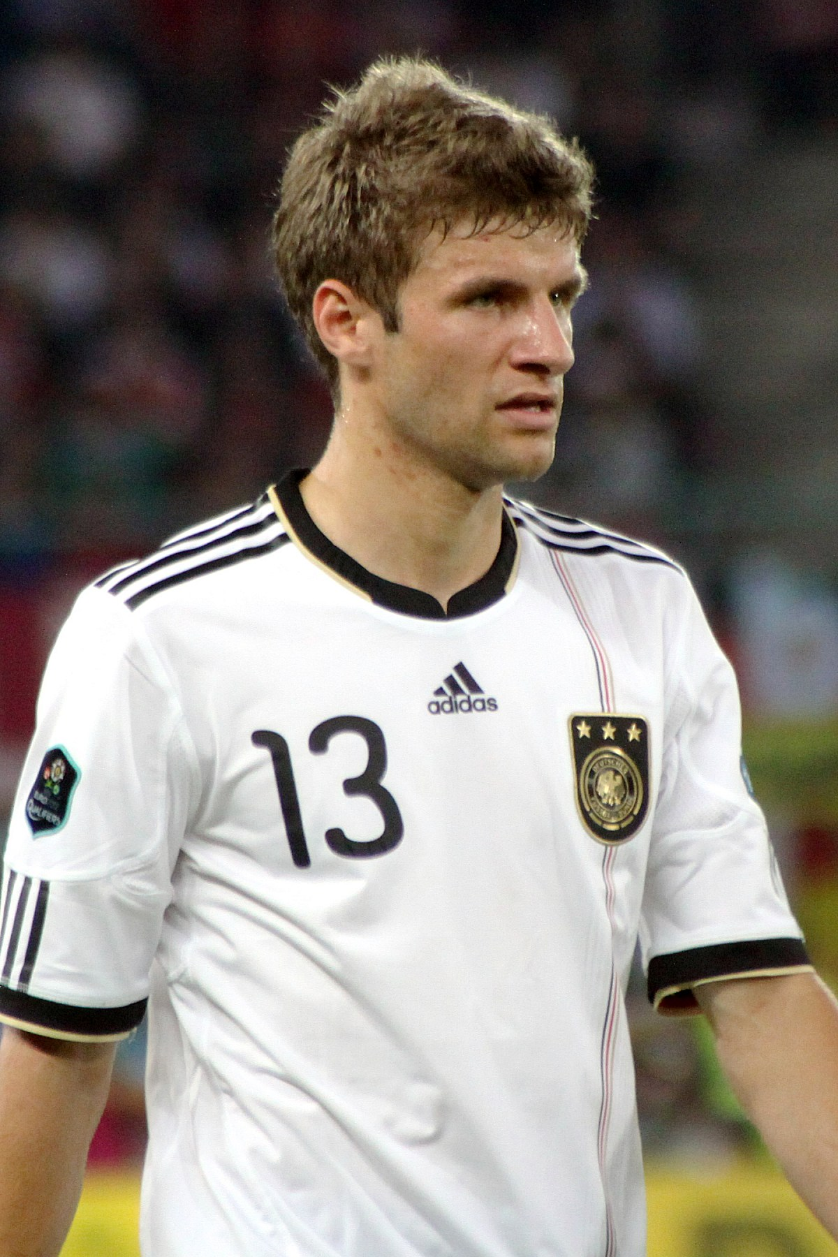 Thomas Müller (FC Bayern Munich), german national football team